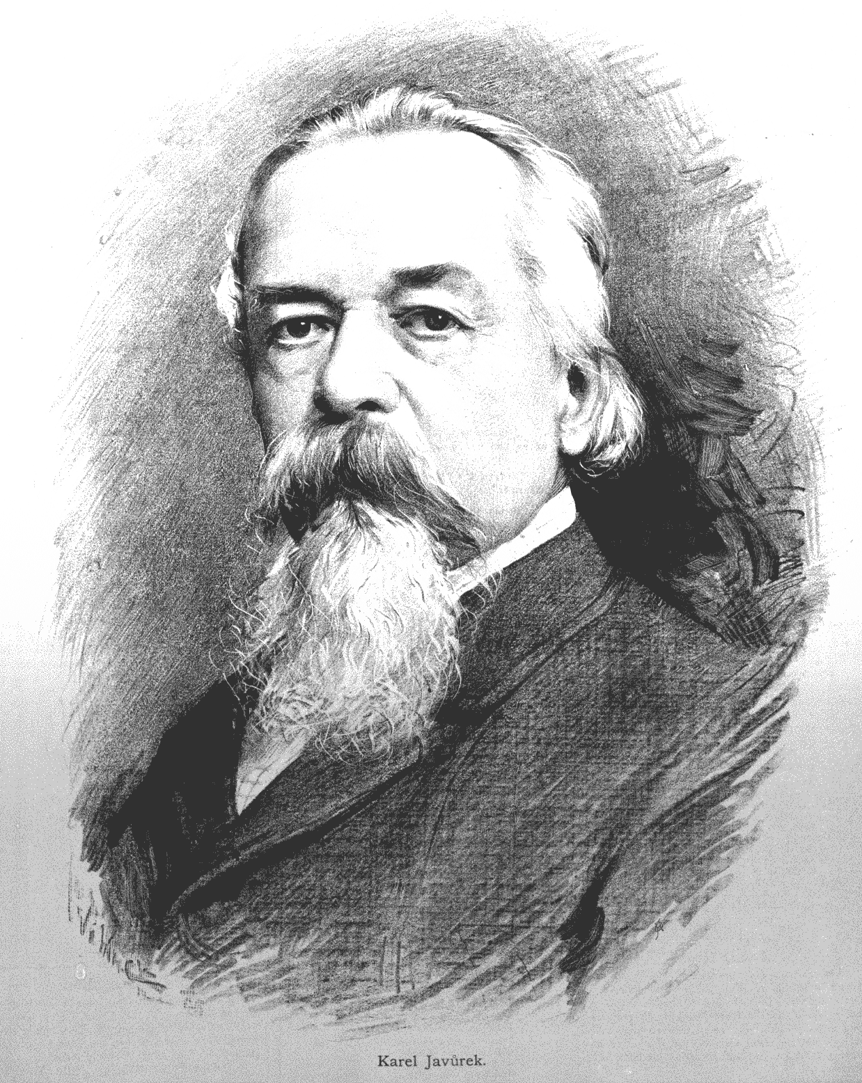 Portrait of Karel Javůrek (1815-1909), Czech painter.